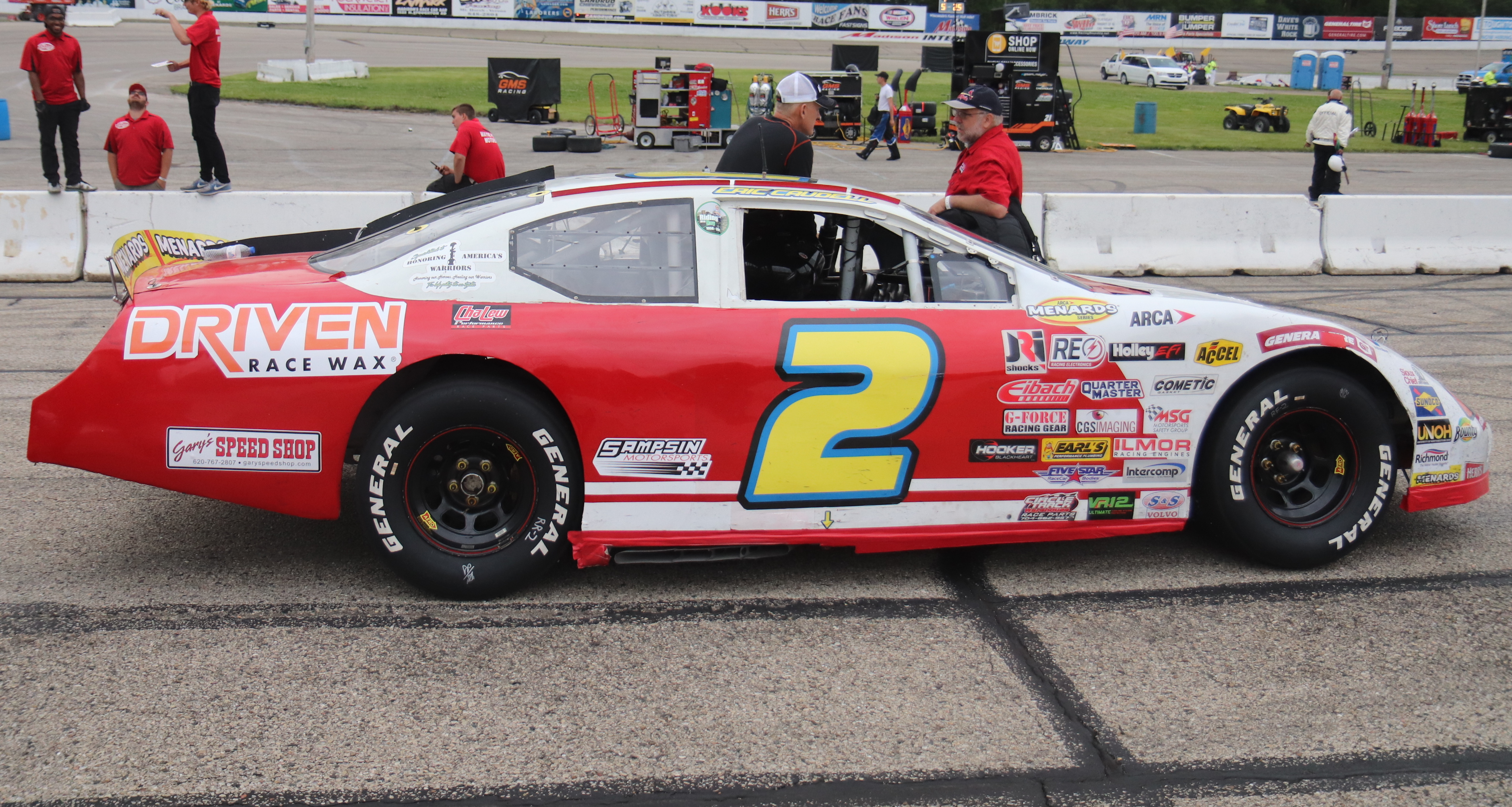 The #2 Dodge of Eric Caudell at Madison International Speedway.